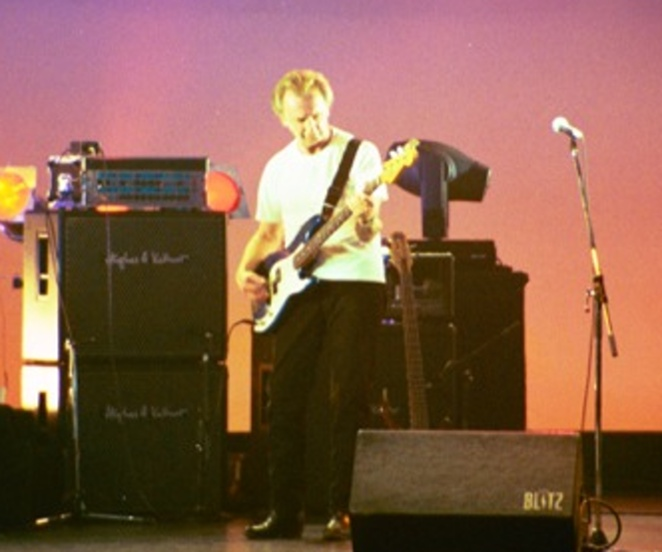 Bass guitarist, Peter Plavsic from Sebastian Hardie performing live in Japan